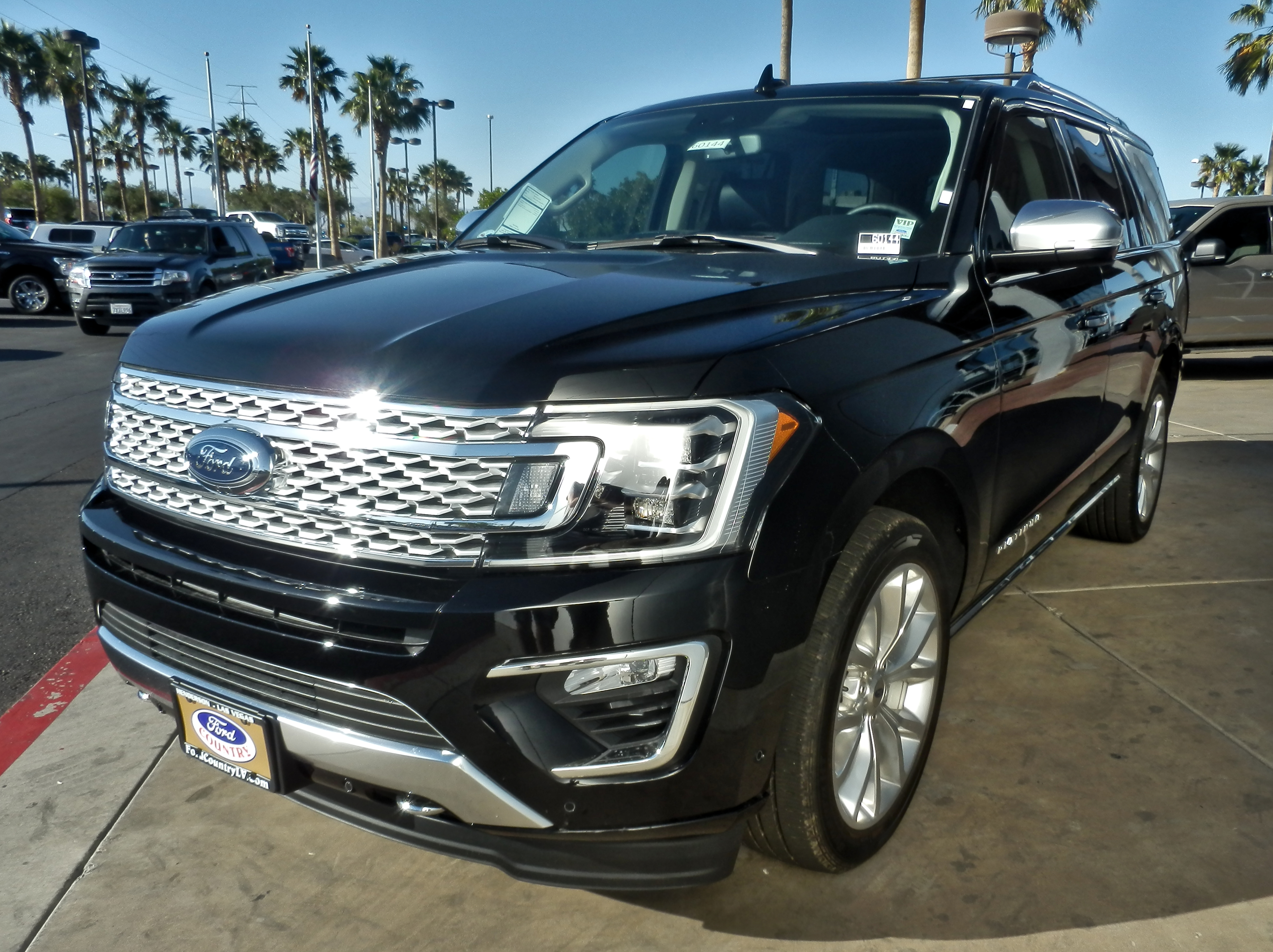 Ford Expedition in Las Vegas